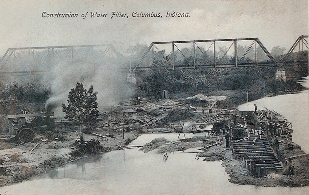 This view of the East Fork of the White River is looking south at the Second Street Bridge in Columbus, Indiana during the construction of the water filter. It was taken between between 1871 and 1903.